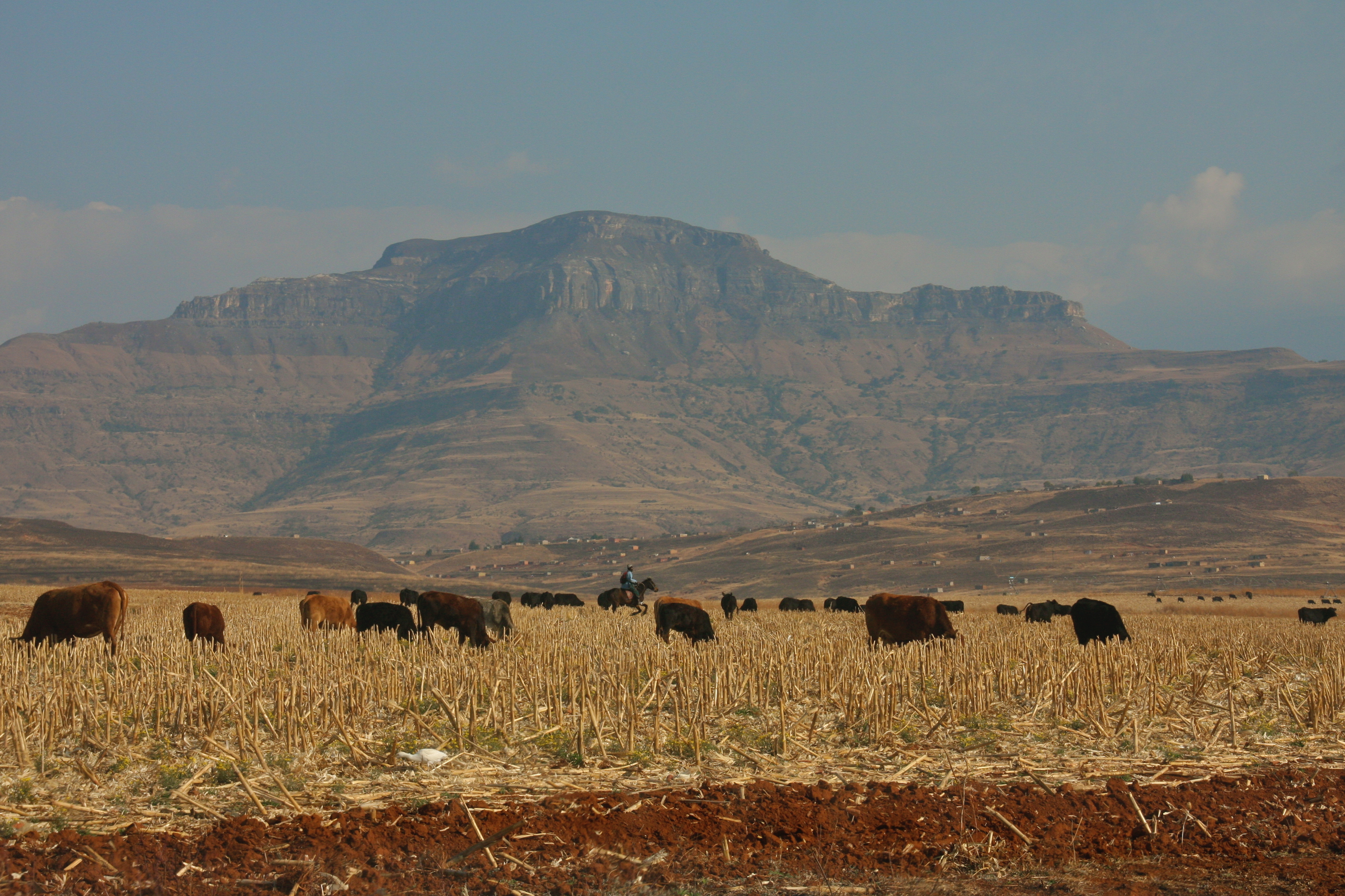 This is an image with the theme "Africa on the Move or Transport" from: South Africa